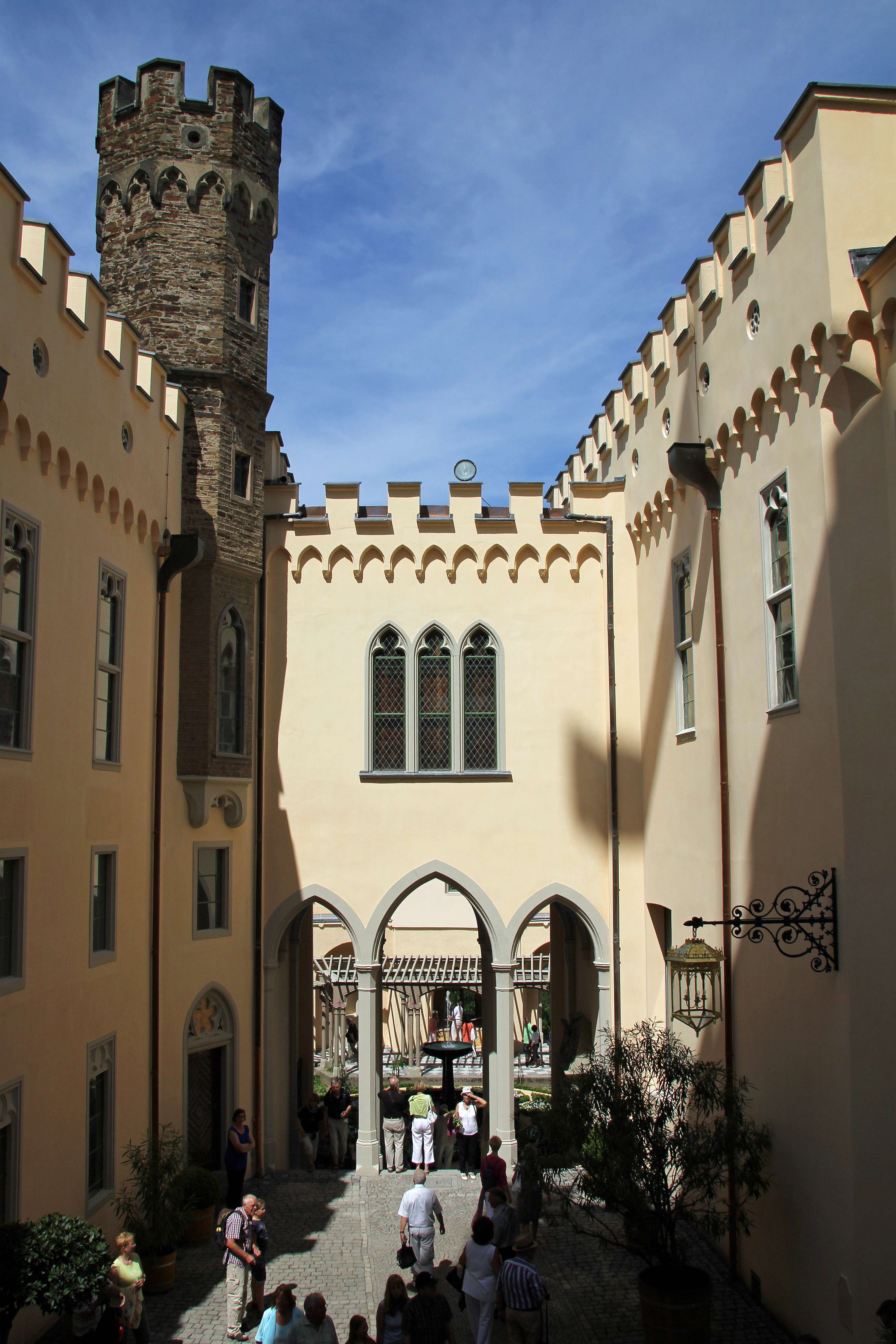 Federal Horticultural Show 2011 in Koblenz - Stolzenfels Castle